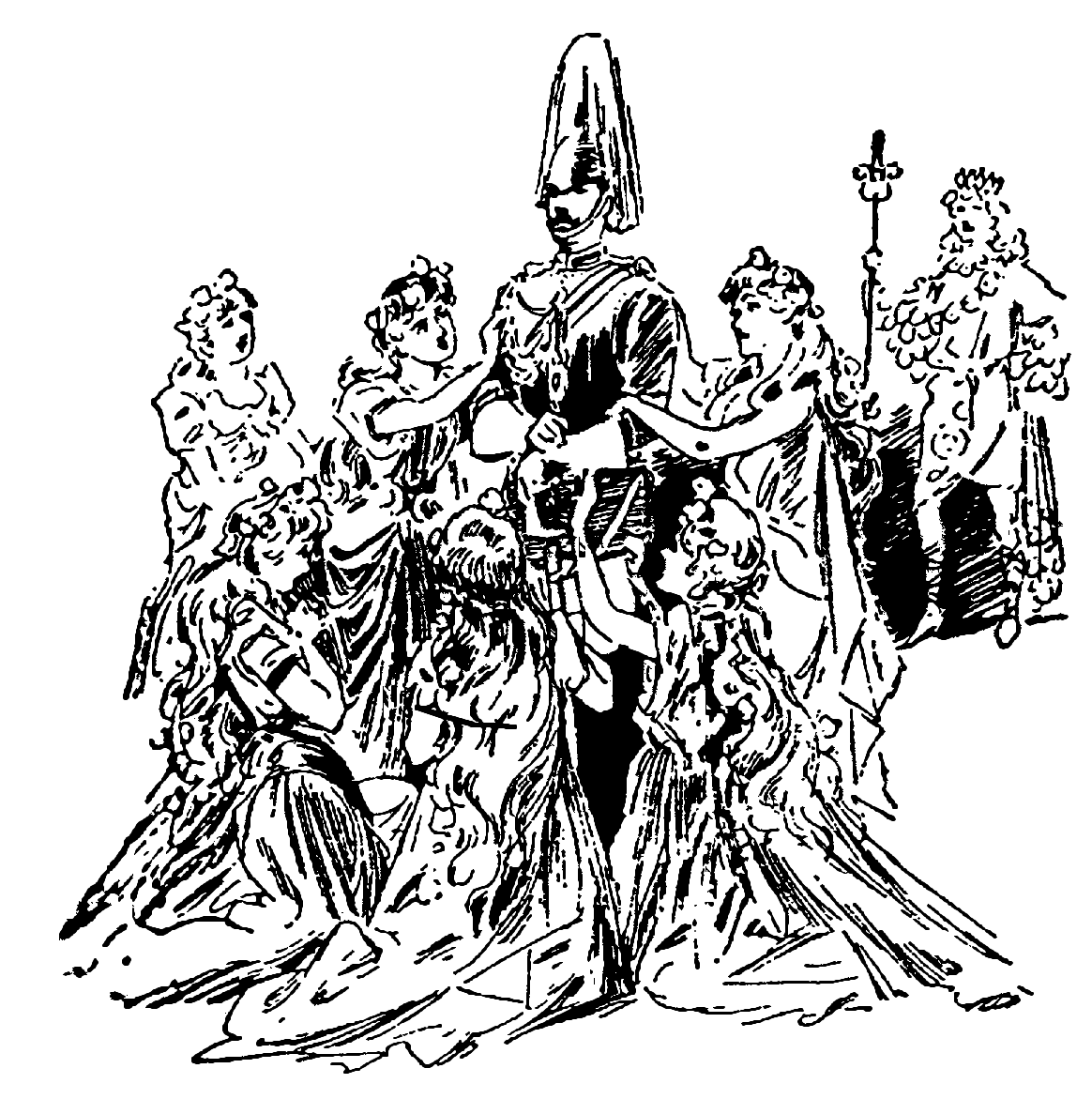 Image taken from listed as public domain